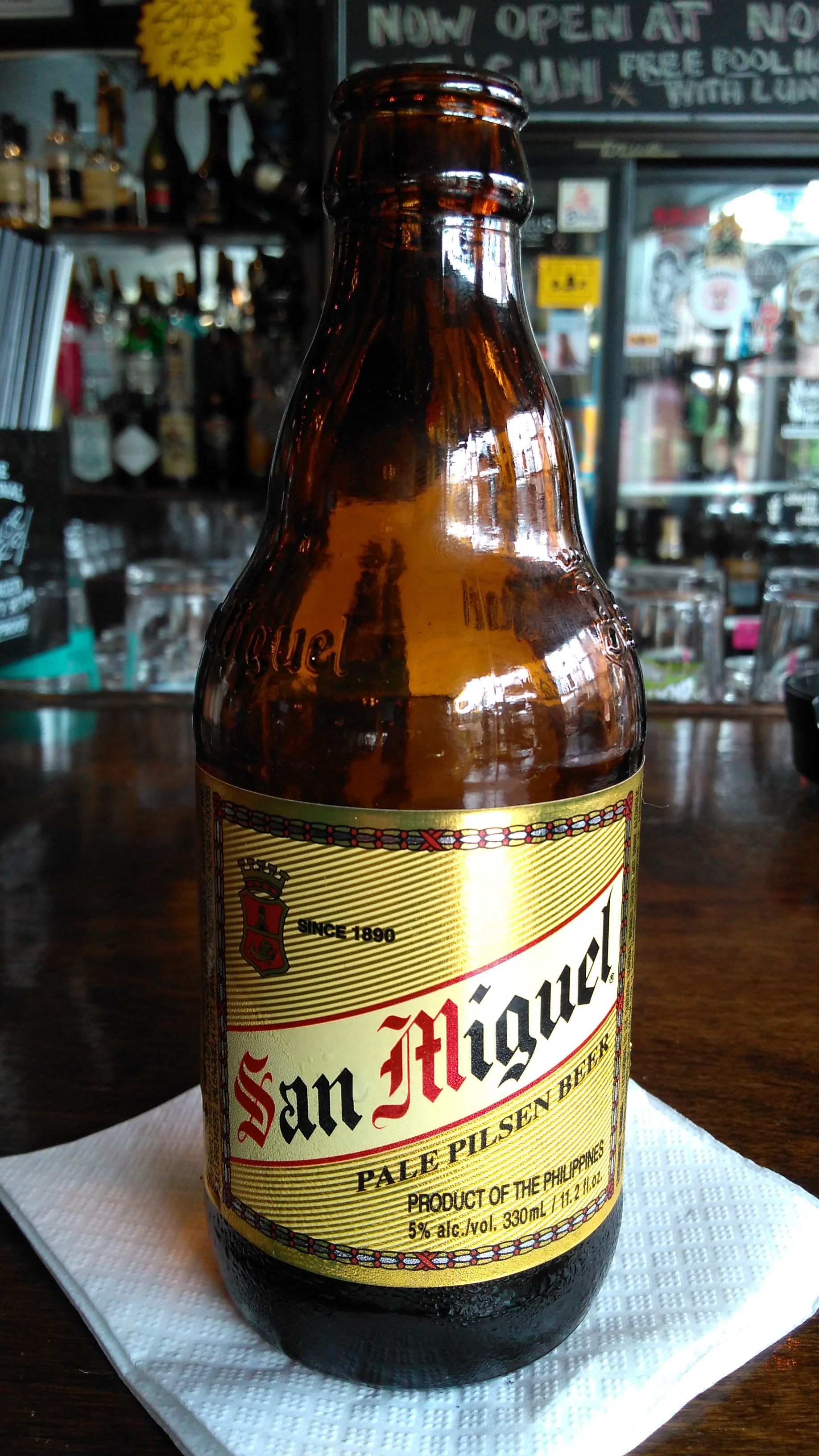 U.S. export-labelled San Miguel 1890 Pale Pilsen | Image captured at the Independent in Atlanta, GA on 30 April 2017